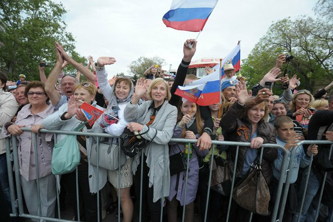 Gala concert to mark the 69th anniversary of Victory in the Great Patriotic War and 70th anniversary of the liberation of Sevastopol from Nazis.